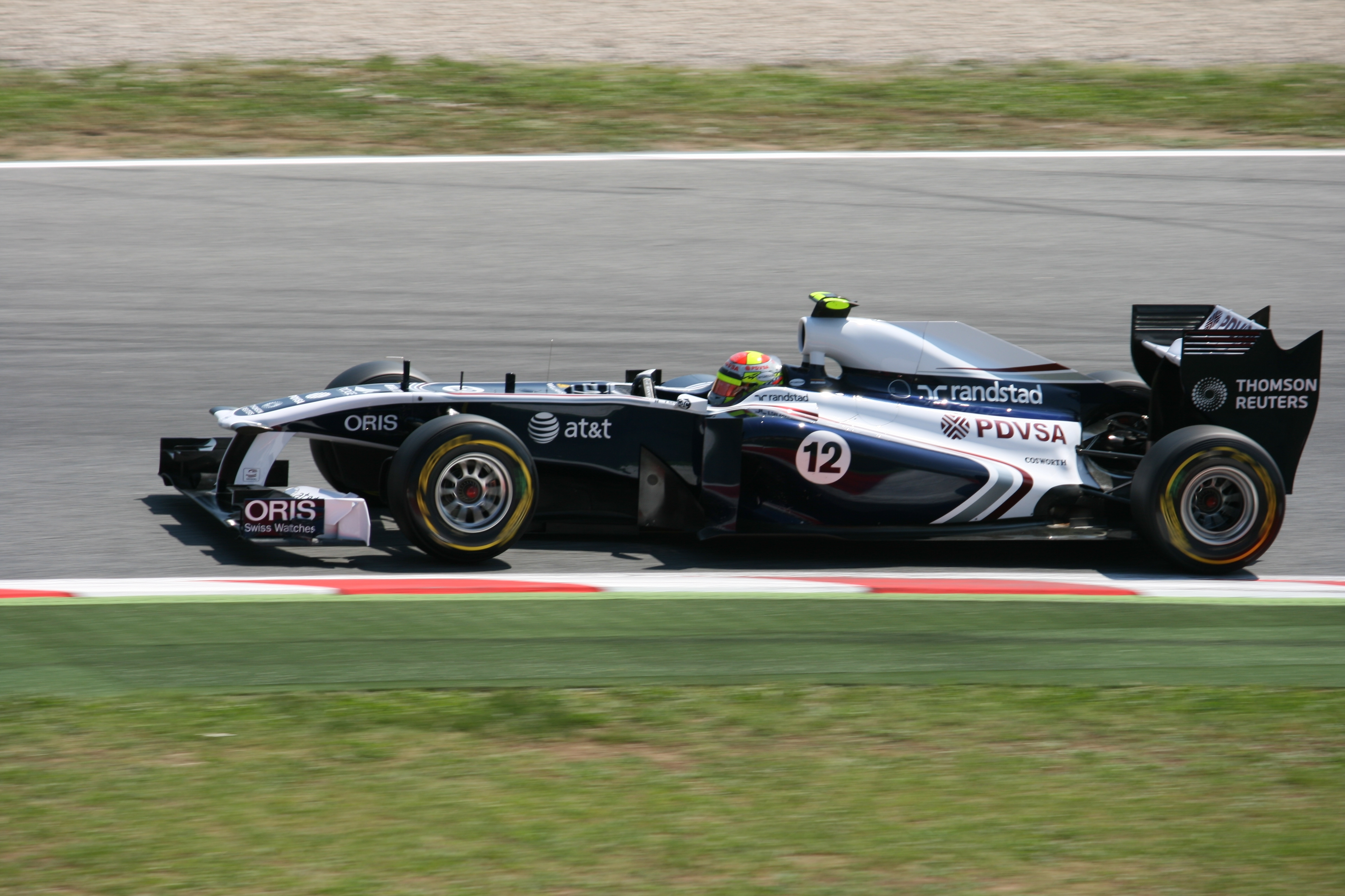 Williams FW33 Pastor Maldonado 2011 Spanish Grand Prix